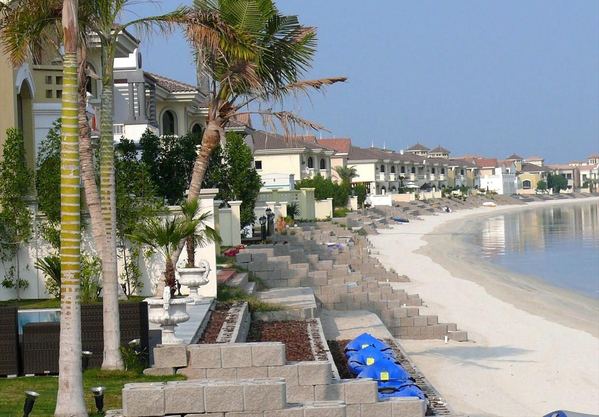 This is a photo of a beach the Palm Jumeirah in Dubai, United Arab Emirates on 24 January 2008.